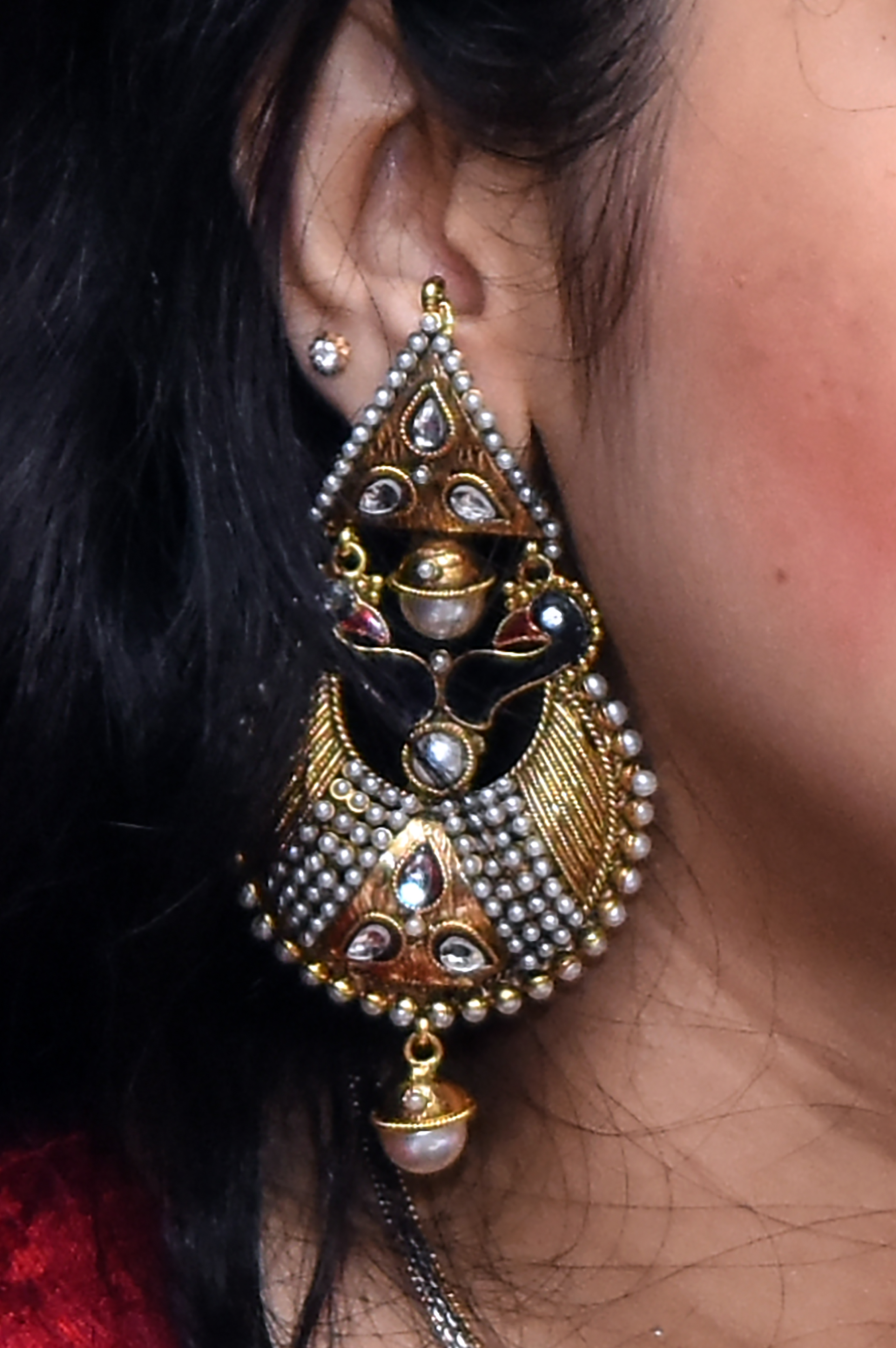 Modern lobe earrings, Chittagong, Bangladesh.